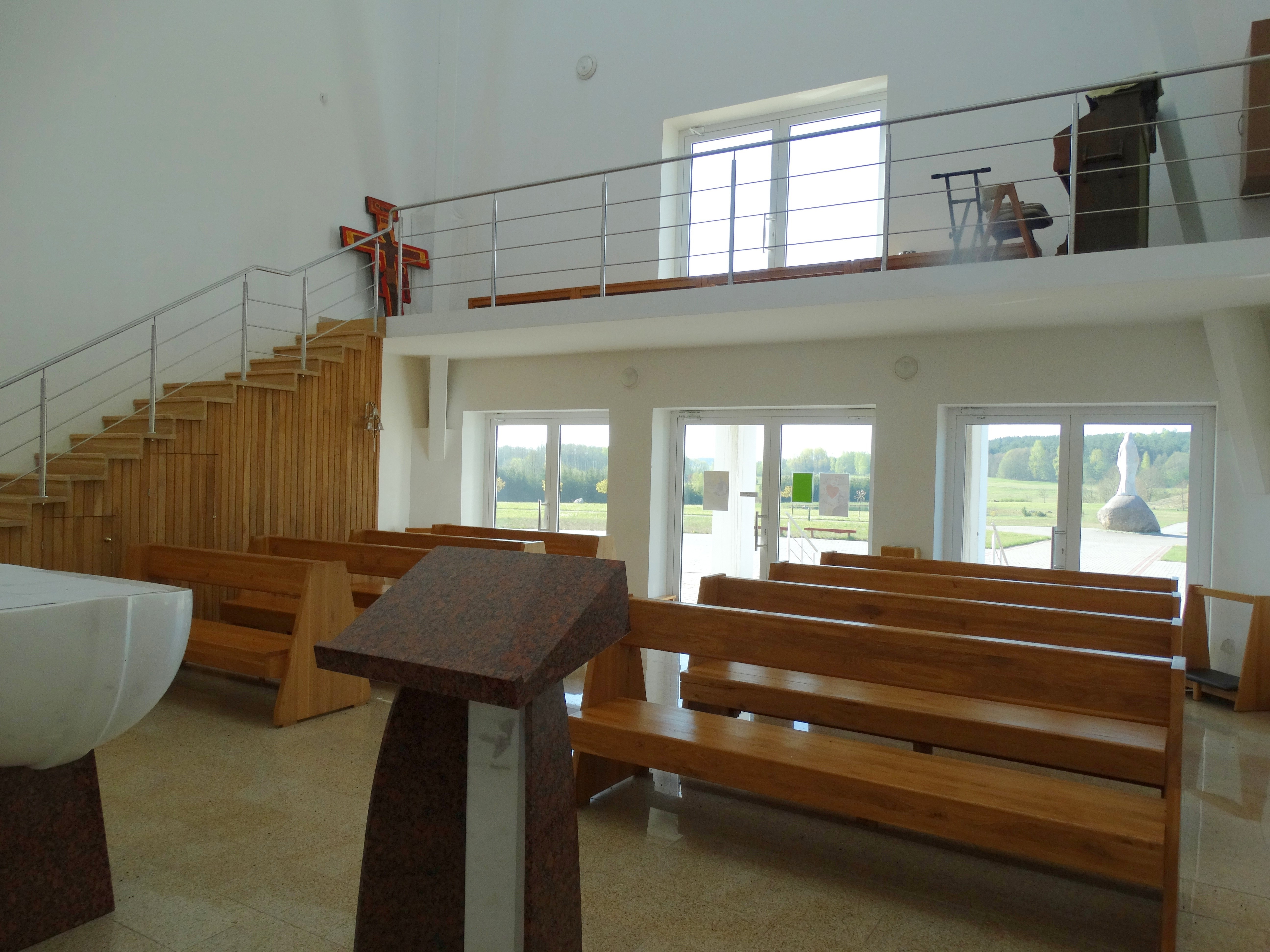 Chapel in Guronys, Kaišiadorys District, Lithuania